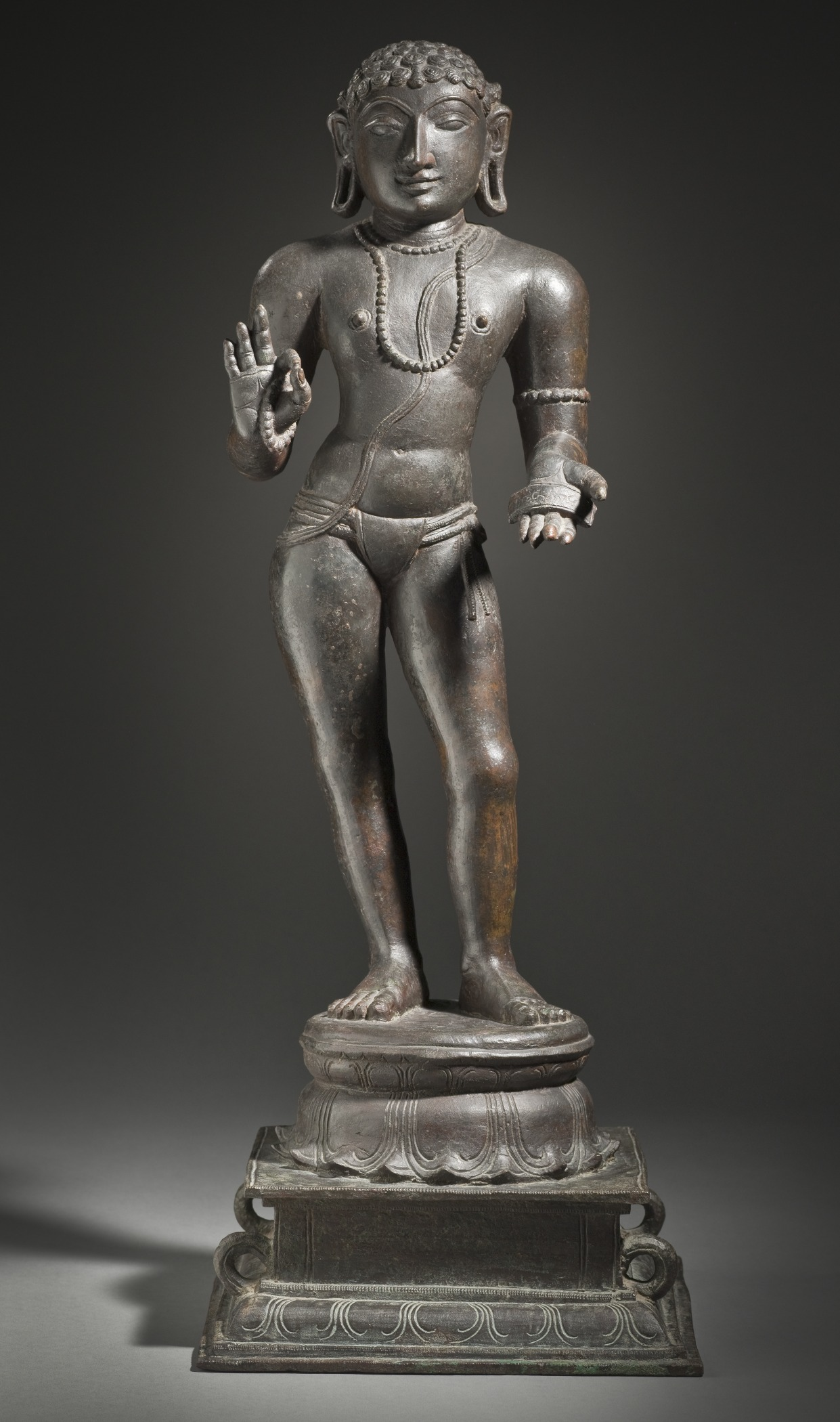 India, Tamil Nadu, early 12th century Sculpture Copper alloy Gift of the 1997 Collectors Committee (AC1997.16.1) South and Southeast Asian Art